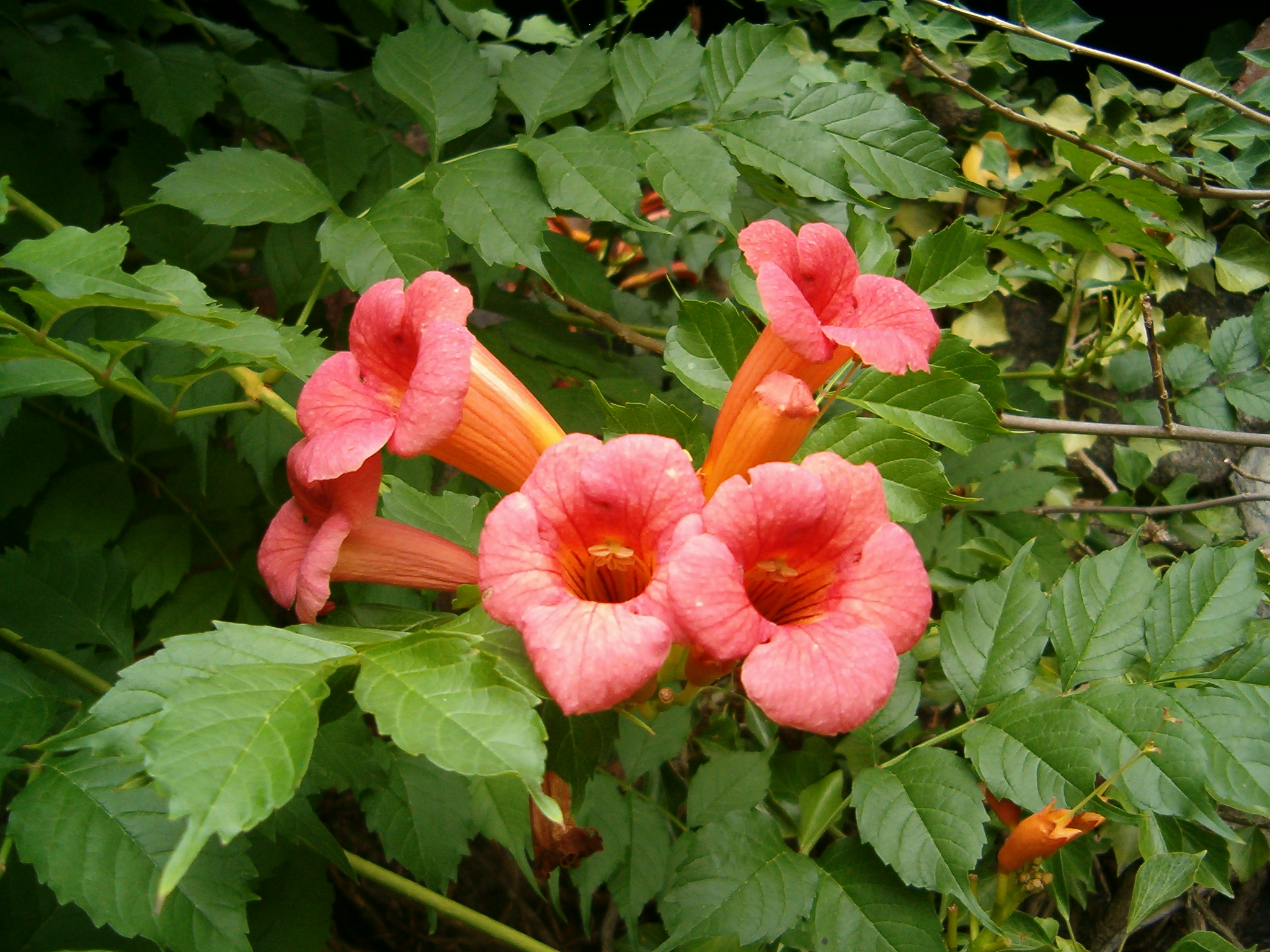 Location: Botanical Gardens Berlin Leaves and Flowers